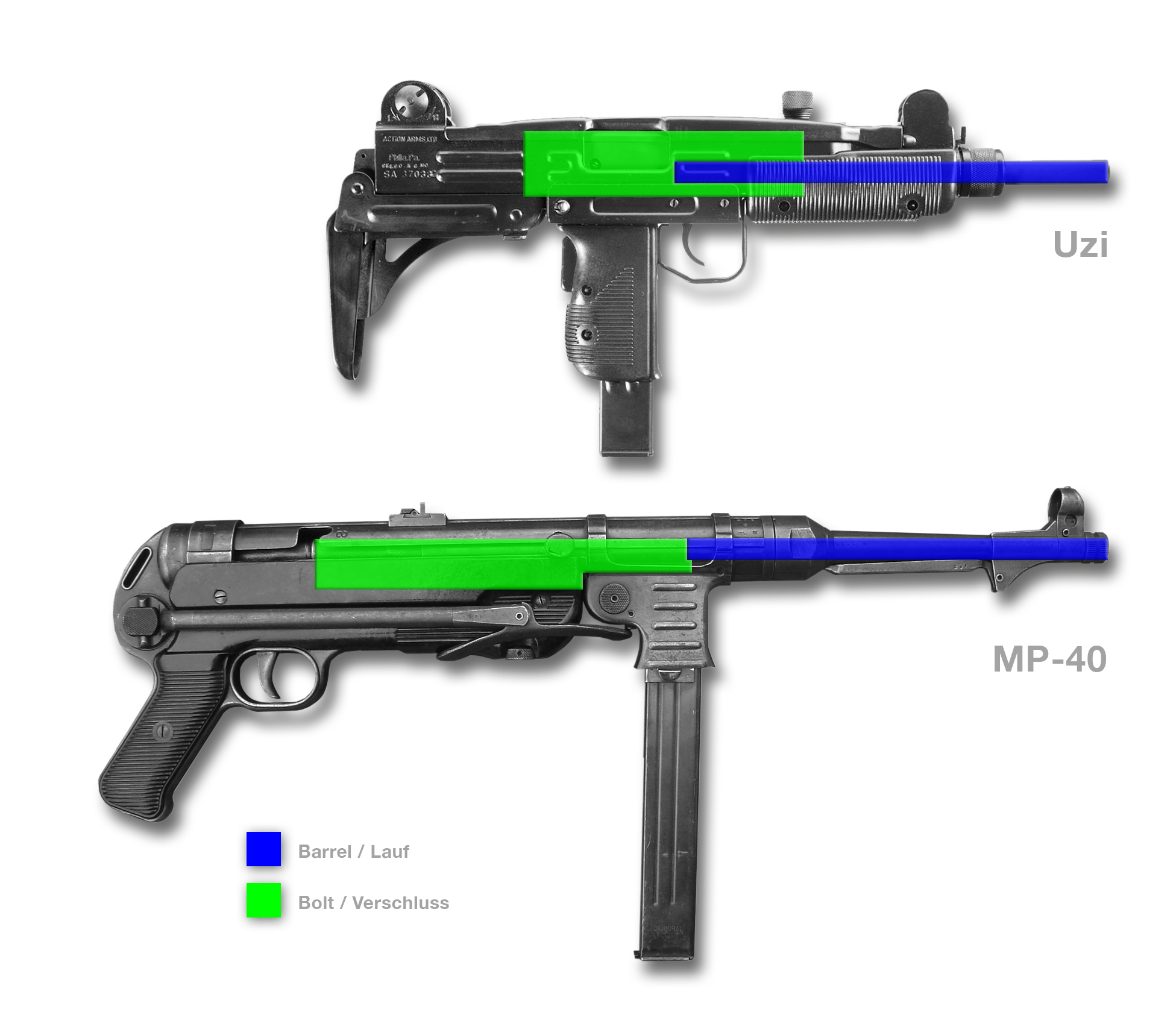 Internal diagram showing a telescoping bolt submachinegun, the Uzi, and a conventional submachinegun, the MP40, relative sizes. The gun's barrels (blue) and bolts (green) are diagramed.